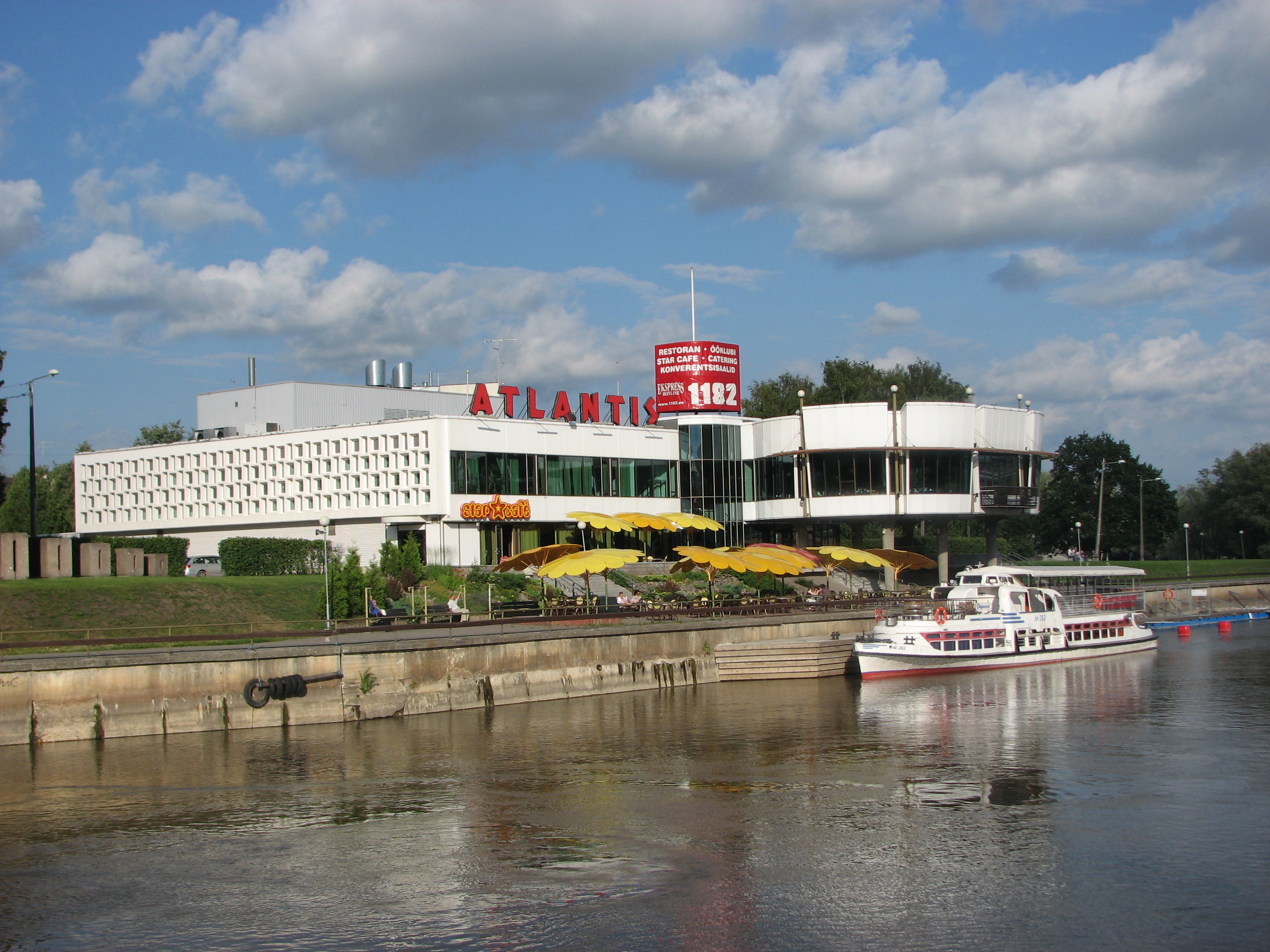 "Club Atlantis" in Tartu, Estonia